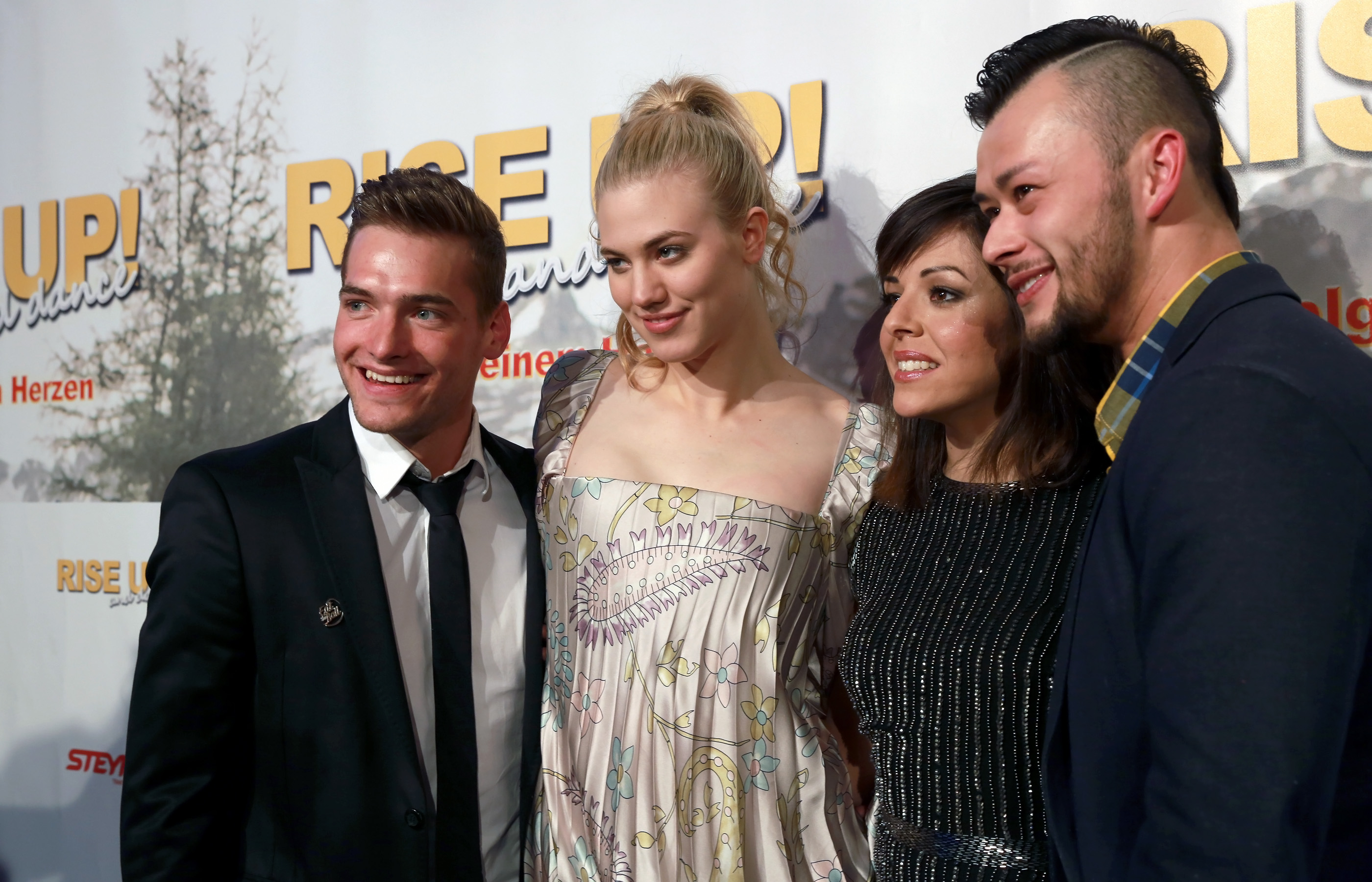 Larissa Marolt, Vinzenz Wagner, Marjan Shaki and Lukas Plöchl at the premiere of Rise Up! And Dance at UCI Kinowelt Millennium City in Vienna.